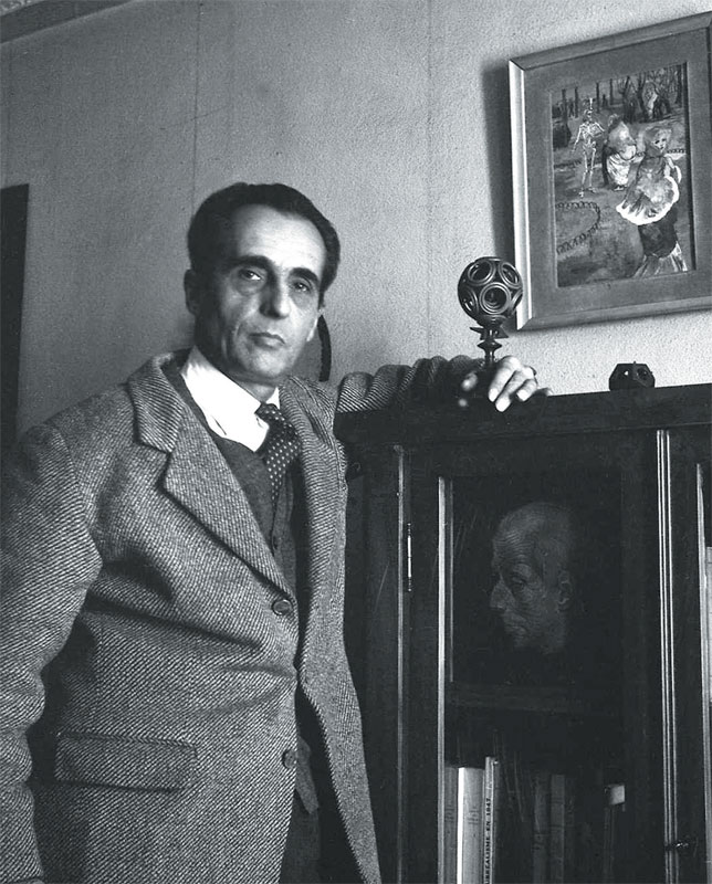 Black and white photographic selfportrait of French painter Jean-Claude Fourneau holding a wooden masterpiece, with a portrait of Max Ernst by Hans Bellmer in back ground.